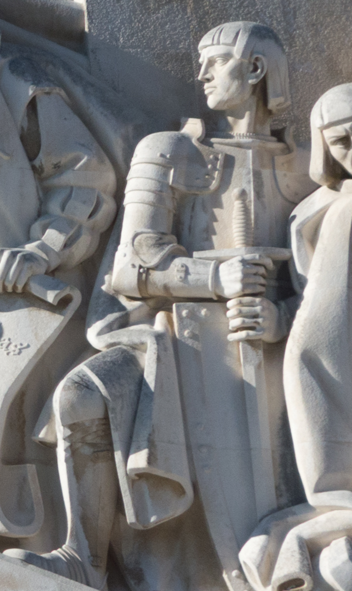 Effigy of Estêvão da Gama (1505-1576), Governor of Portuguese India, in the Padrão dos Descobrimentos (Monument to the Discoveries), in Lisbon, Portugal.